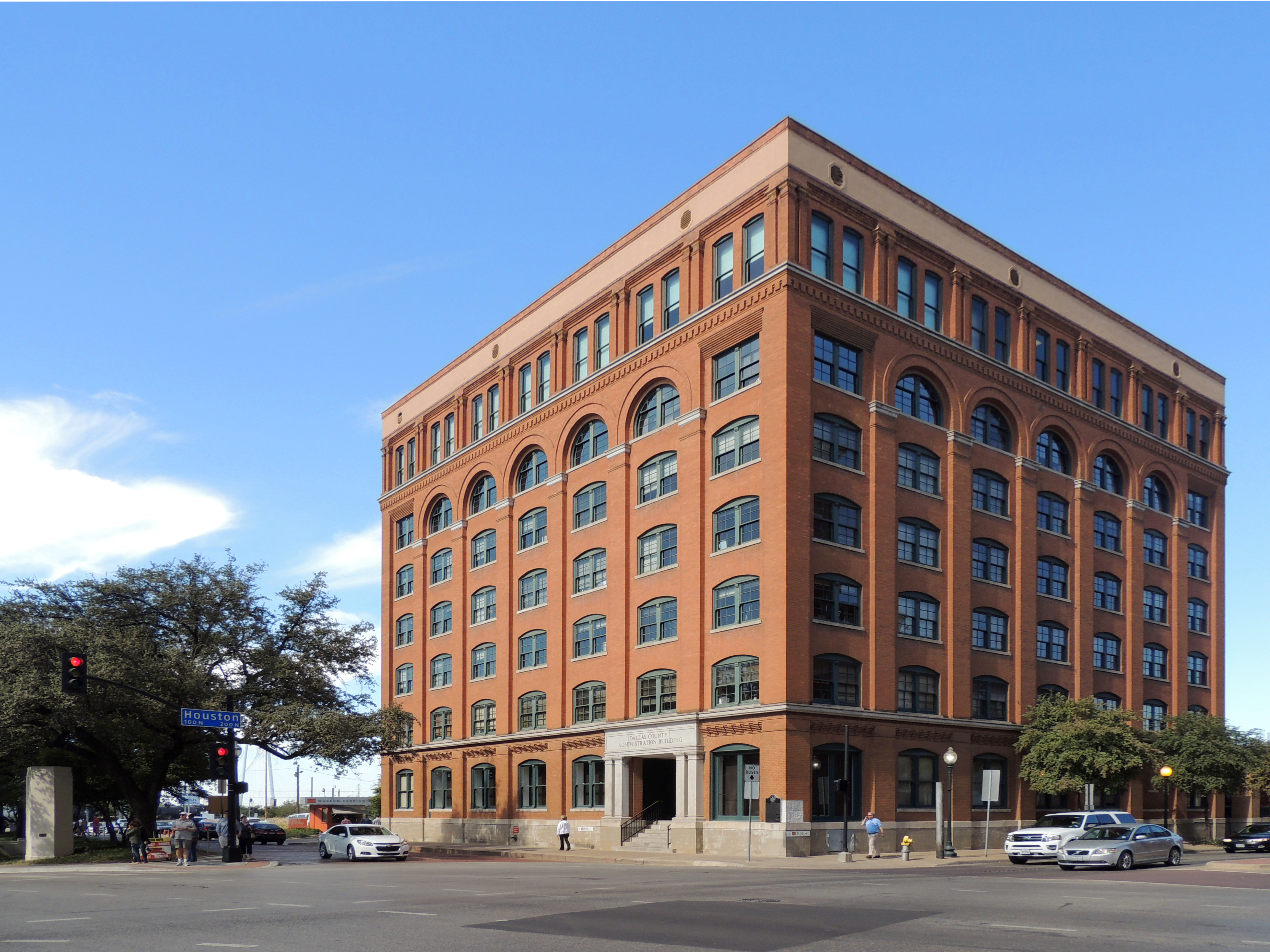 Dallas County Administration Building in 2015, formerly the Texas School Book Depository